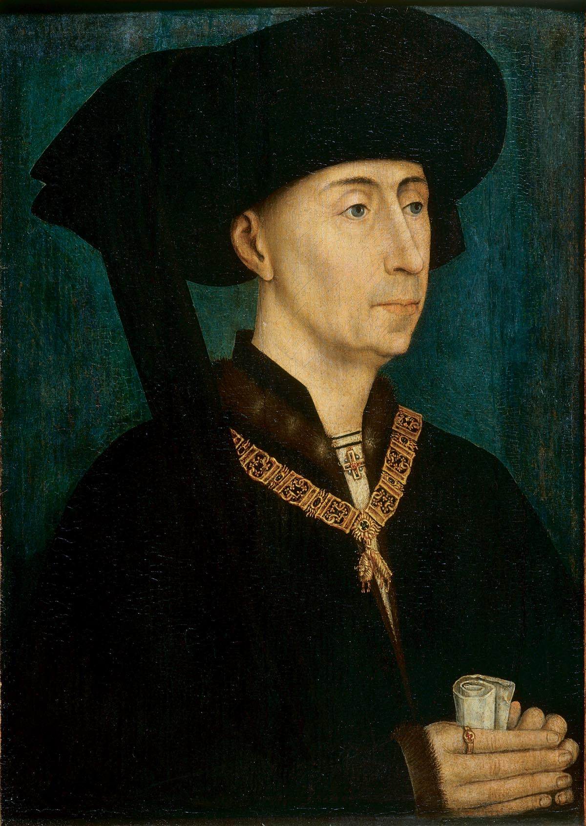 Portrait of Philip the Good (1396-1467), third Duke of Burgundy from the House of Valois. Half length, facing right. He is dressed in black, wearing a jewelled collar of firesteels in the shape of the letter B, for Burgundy, and flints, holding the Order of the Golden Fleece, which he instituted. The work is after Rogier van der Weyden i.e. a copy of a lost painting, although in this case it may also have existed as a drawing or sketch. There are several such copies (Lille, Antwerp and Paris), of which the Dijon version is thought to be the best.